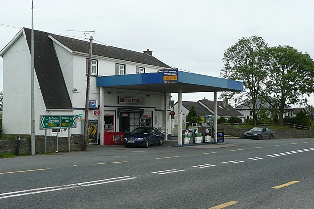 Kiltoom Stores On the N61 Roscommon to Athlone road, at the junction with a significant local road from Curraghboy. It is for sale.